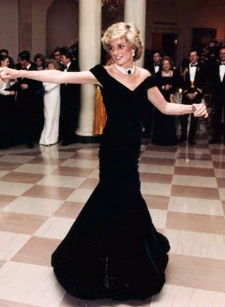 Diana, Princess of Wales, dancing in the White House and wearing a blue velvet dress.